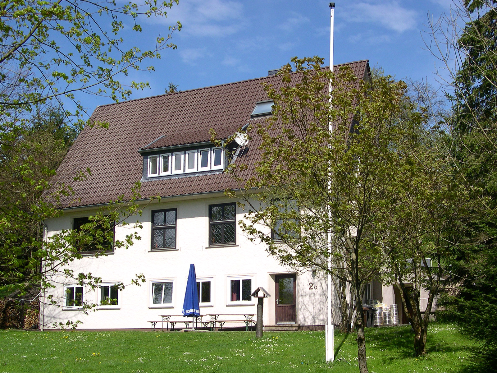 TU Clausthal - Corps Hercynia